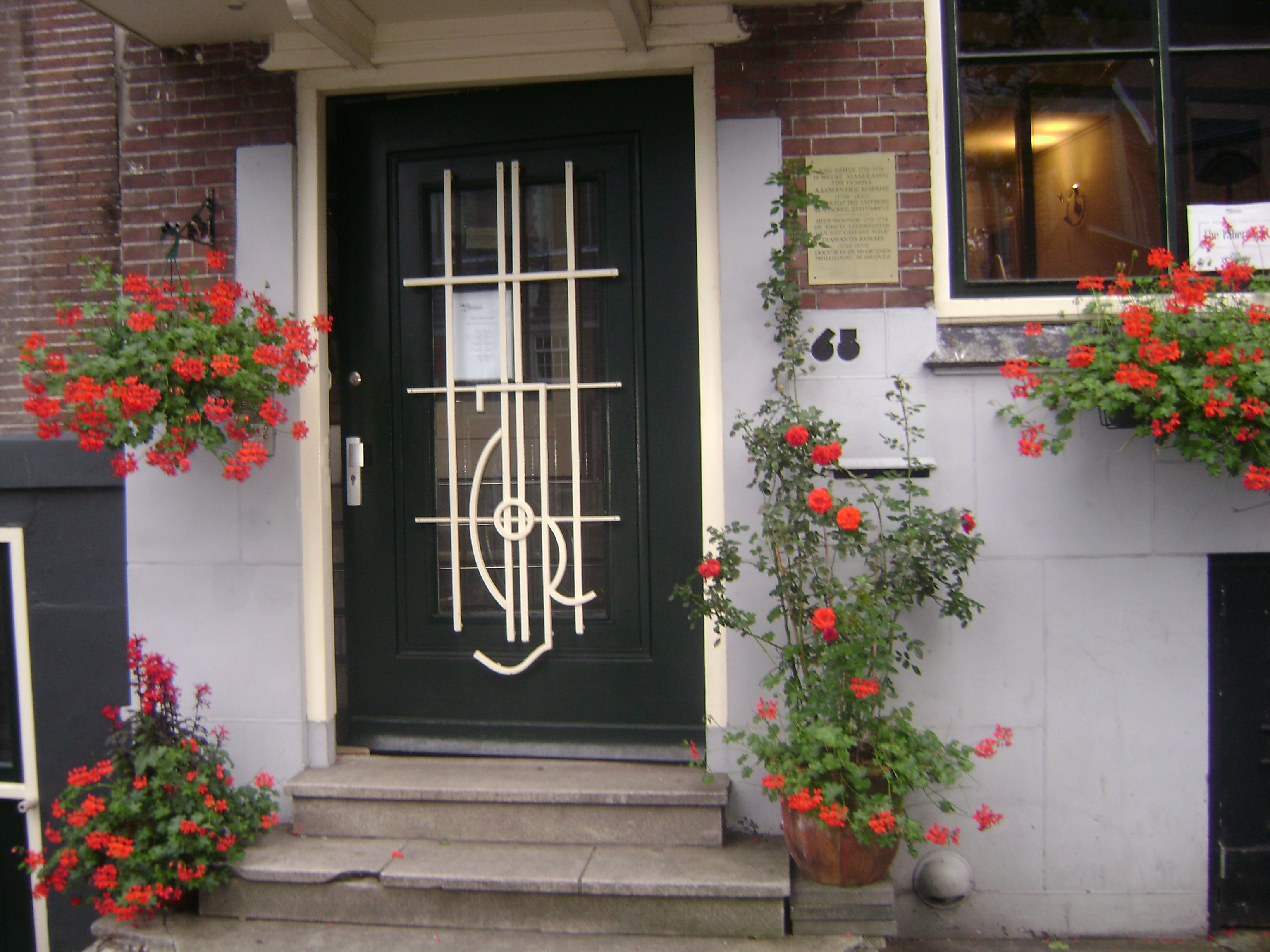 The house of Adamantios Korais on street 65 Voorburgwal, Amsterdam.